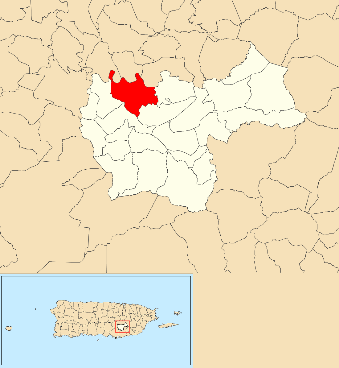 Toíta, Cayey, Puerto Rico locator map